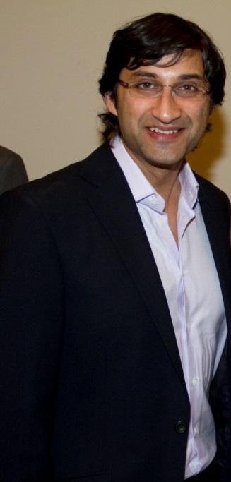 Asif Kapadia at Premiere Senna Documentary.